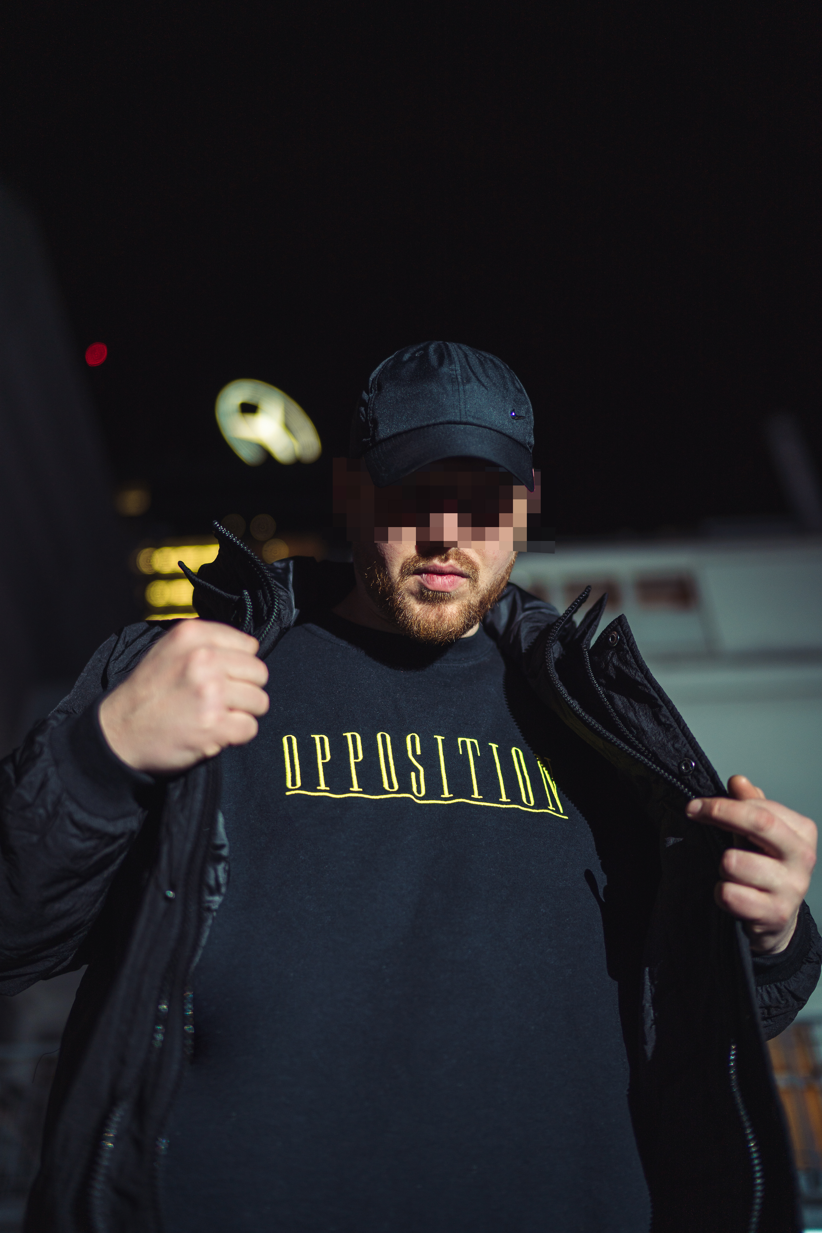 Pressefoto des Rappers Khrome